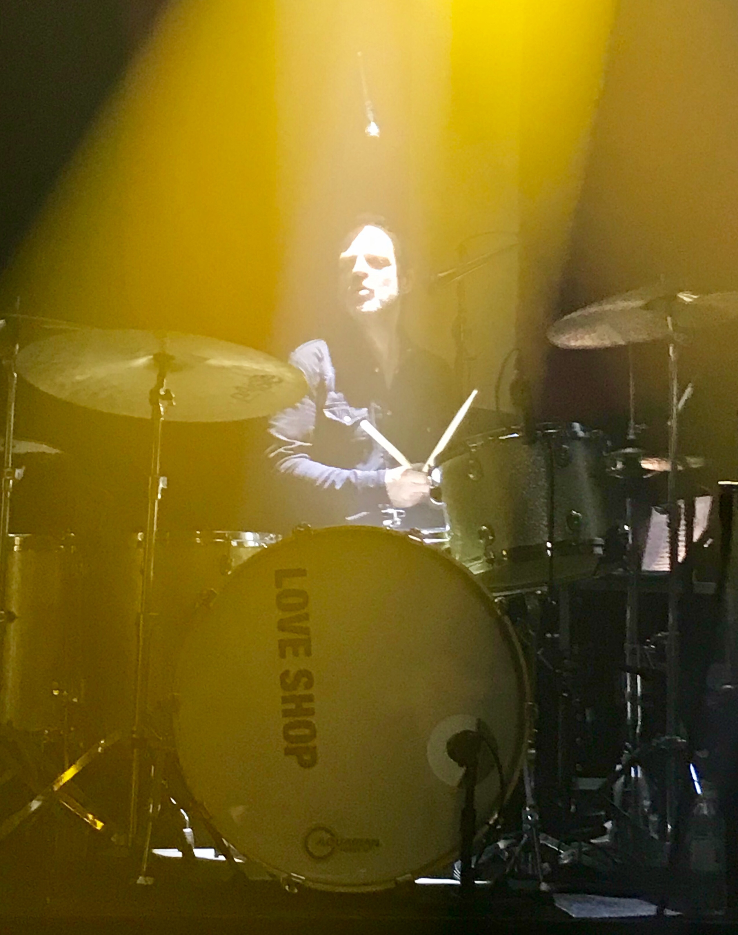 Danish drømmer Thomas Duus with Love Shop at Mantziusgaarden April 2019